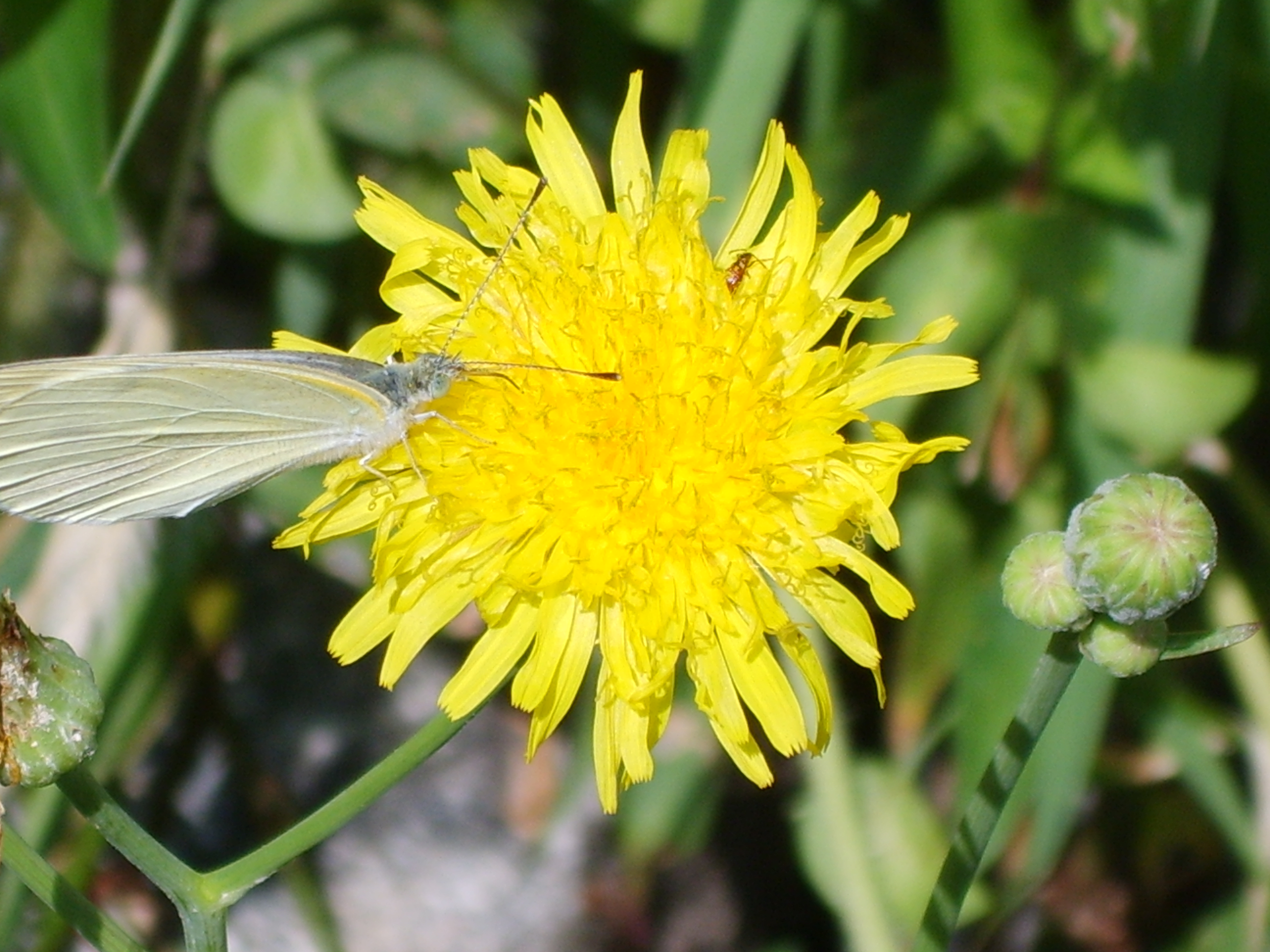 Sonchus brachyotus